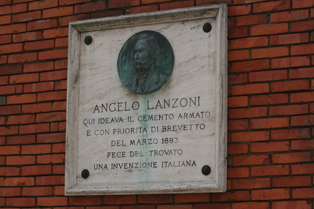 Commemorative plaque dedicated to the engineer Angelo Lanzoni placed on the building of Via Indipendenza at number 82 in Pavia (Italy). The plaque recalls him as an inventor of reinforced concrete by his patent of March 1883.